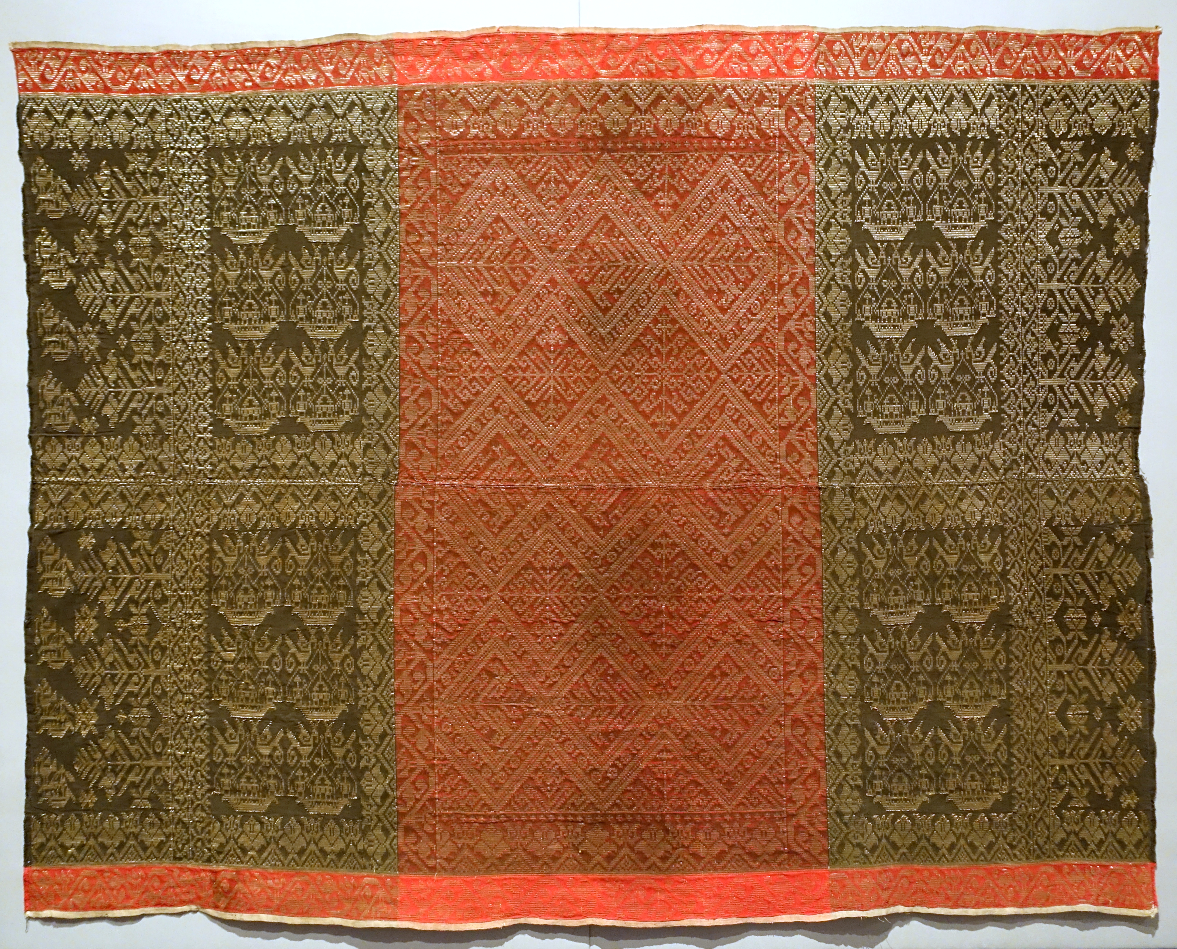 Exhibit in the Textile Museum, George Washington University, Washington, DC, USA. This work is old enough so that it is in the public domain.